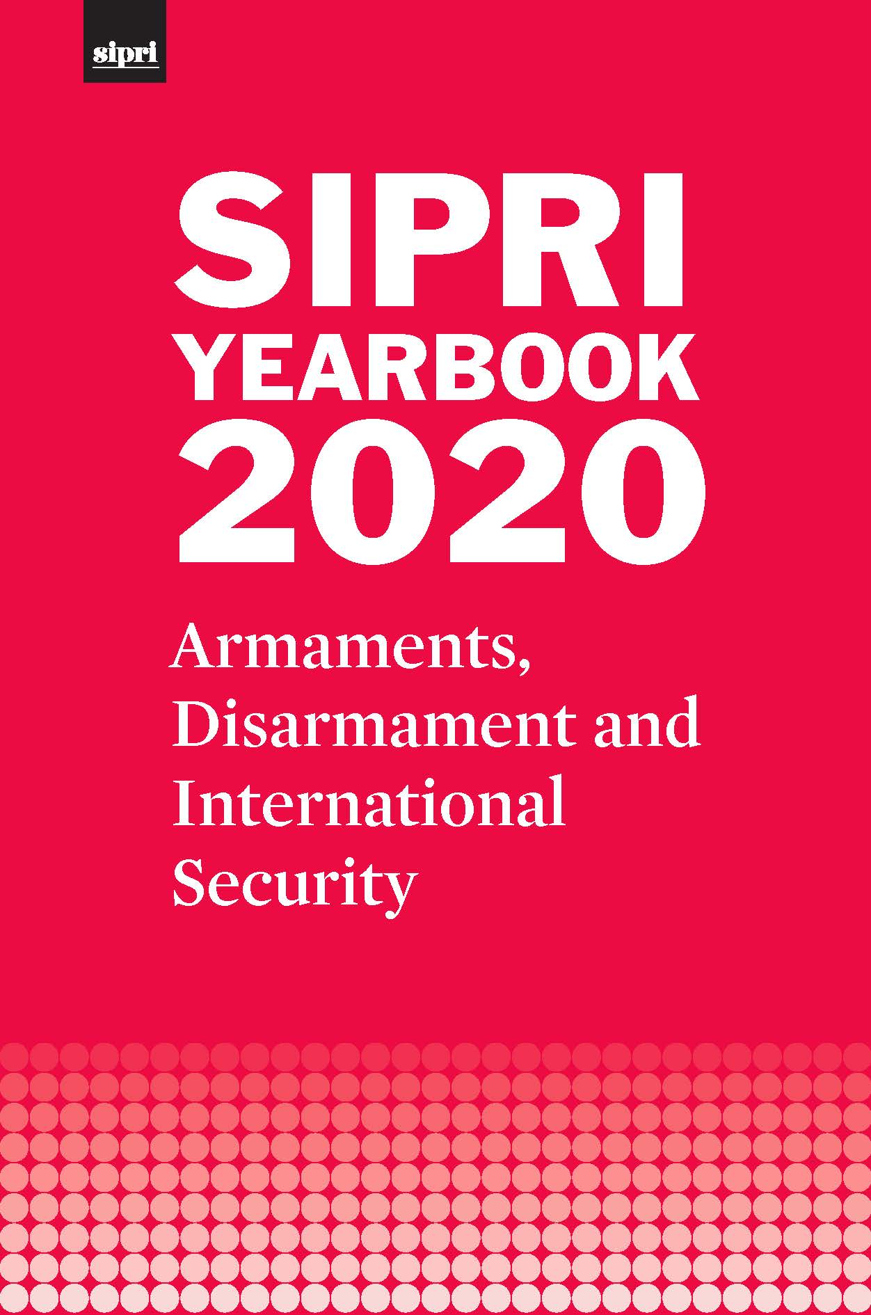 SIPRI Yearbook